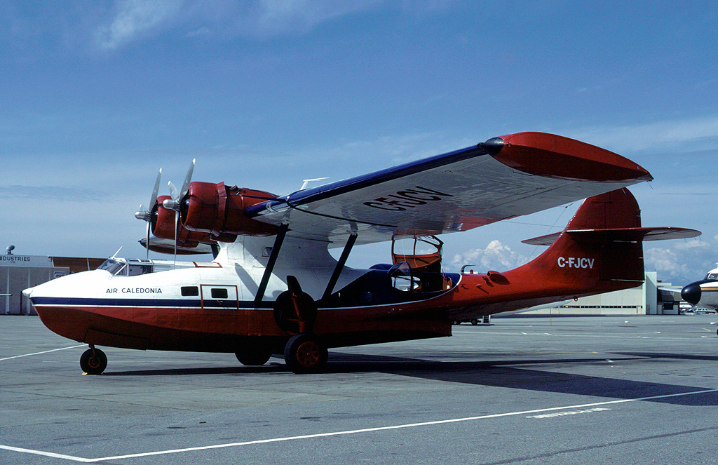 Air Caledonia Canadian Vickers PBV-1A Canso A C-FJCV at Vancouver Intnational Airport